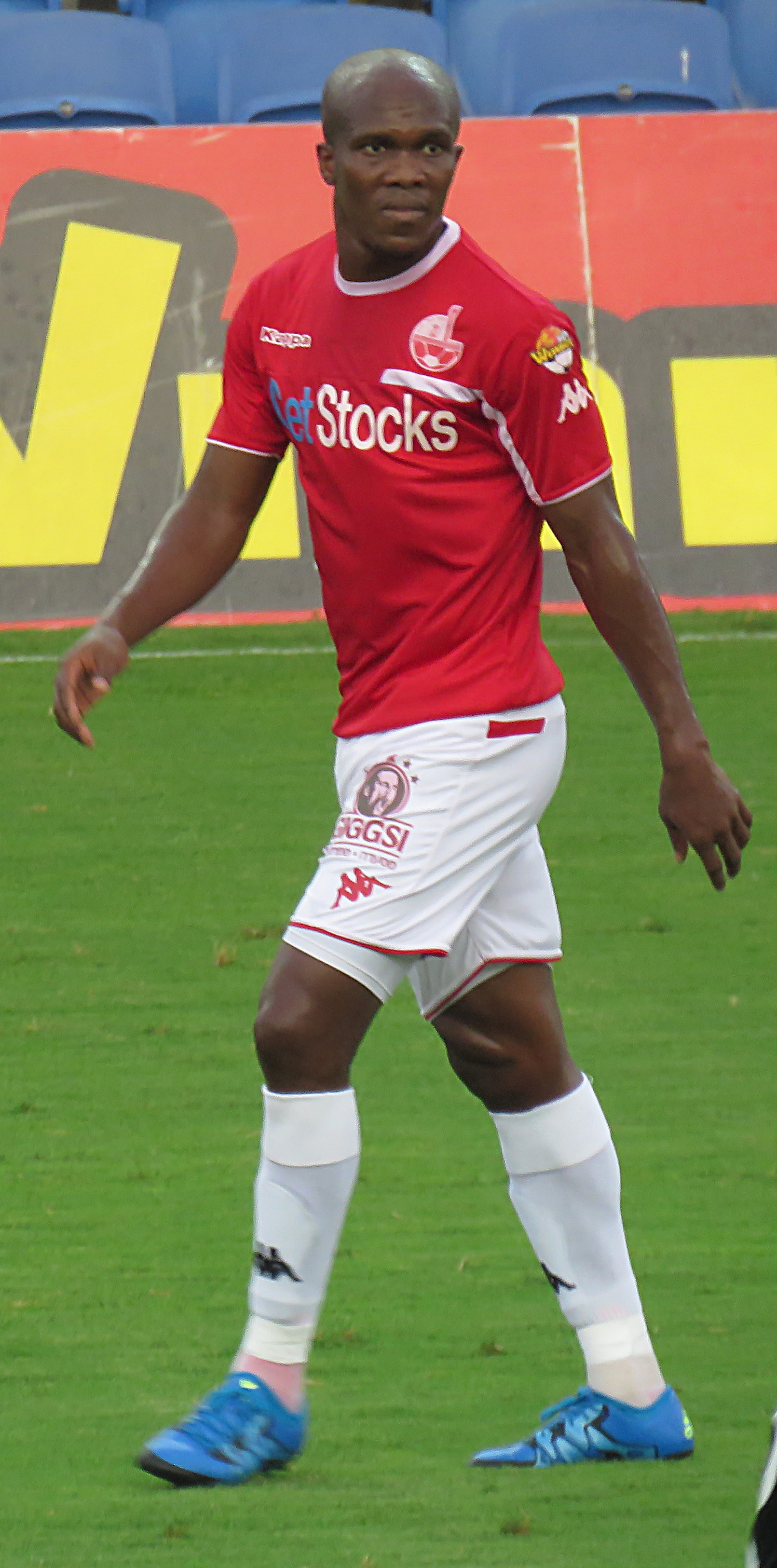 Hapoel Ra'anana vs. Hapoel Be'er Sheva - September 12, 2015